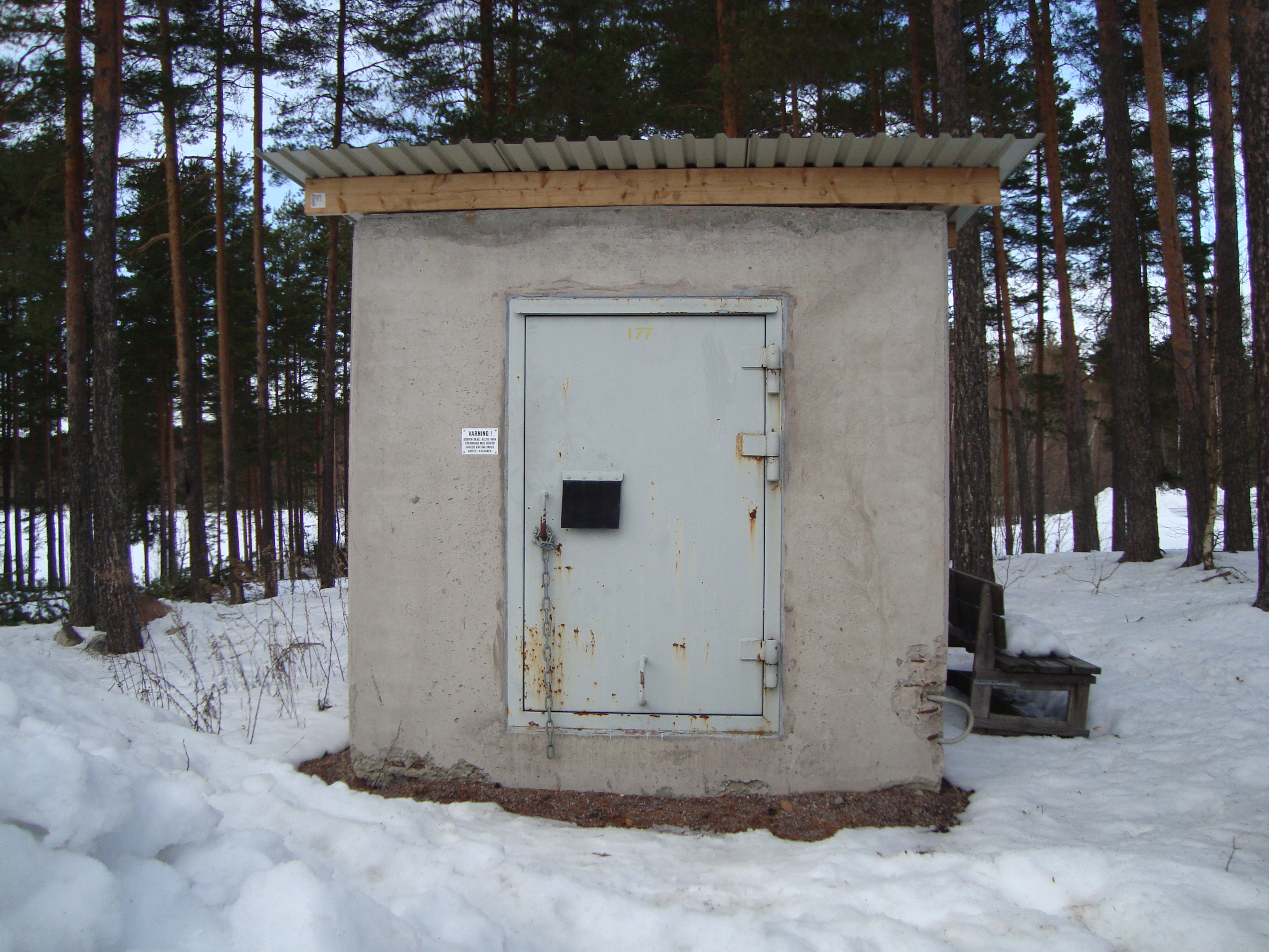 A weapon- and/or ammunition storage somewhere in Sweden.